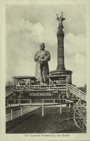 Giant statue of alder wood, erected to the glory of Hindenburg. The public was invited to come and drive nails (to buy on the place, the sum being paid to war widows). At this time the figure of Hindenburg and / or his name have was placed on many items